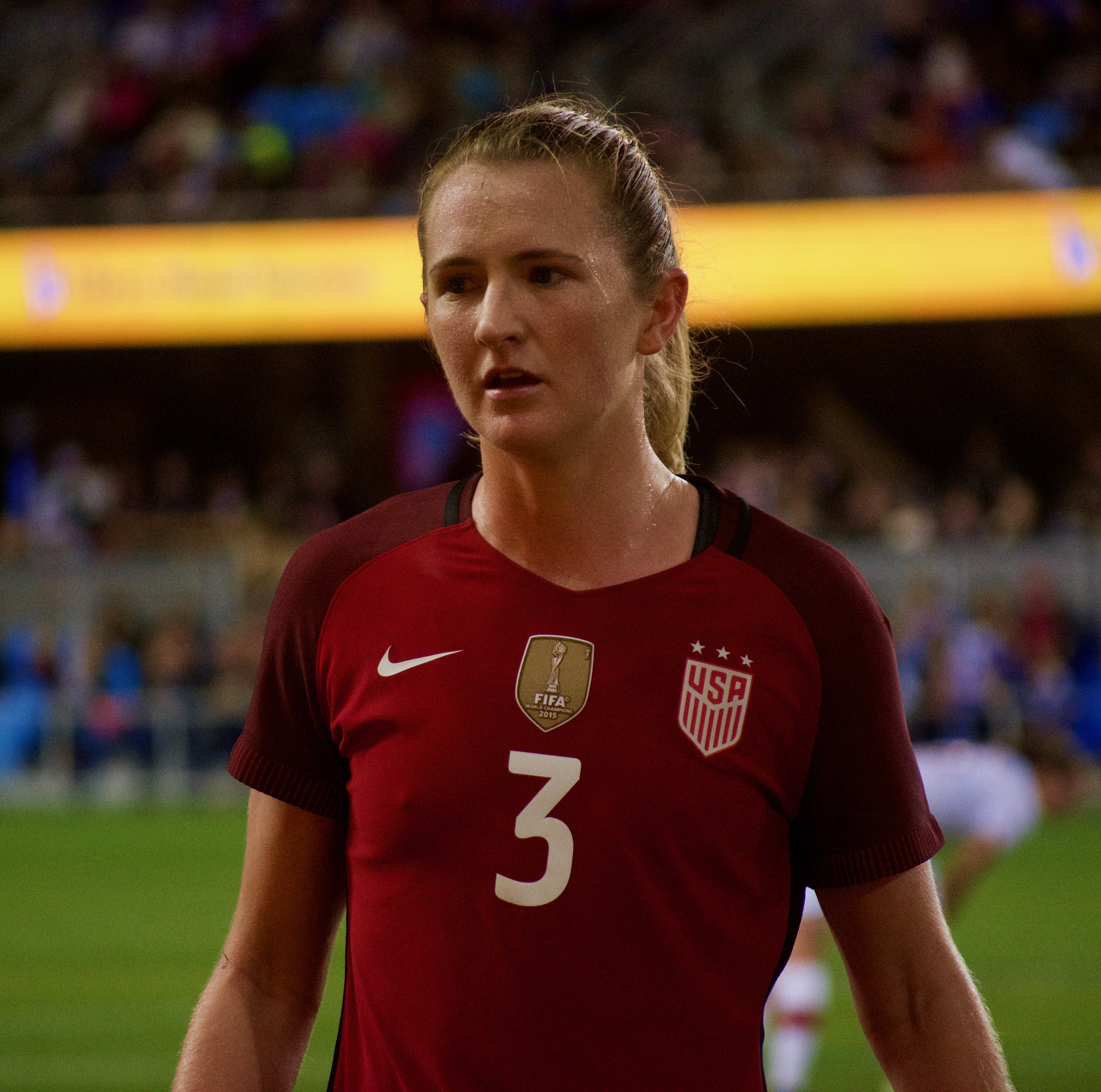 Samantha Mewis playing in a friendly at Avaya Stadium, San Jose, California, 12 Nov 2017. In this shot she is walking off the field to recover after being injured.